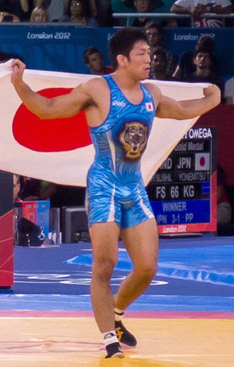 Tatsuhiro Yonemitsu after beating Sushil Kumar in the finals at the 2012 Summer Olympics.